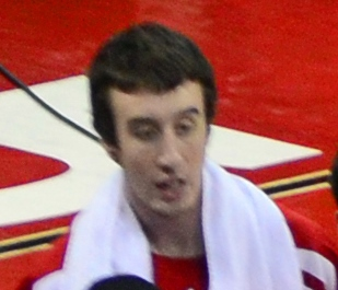 Frank Kaminsky of Wisconsin Badgers men's basketball in January 2012 v. Michigan State.